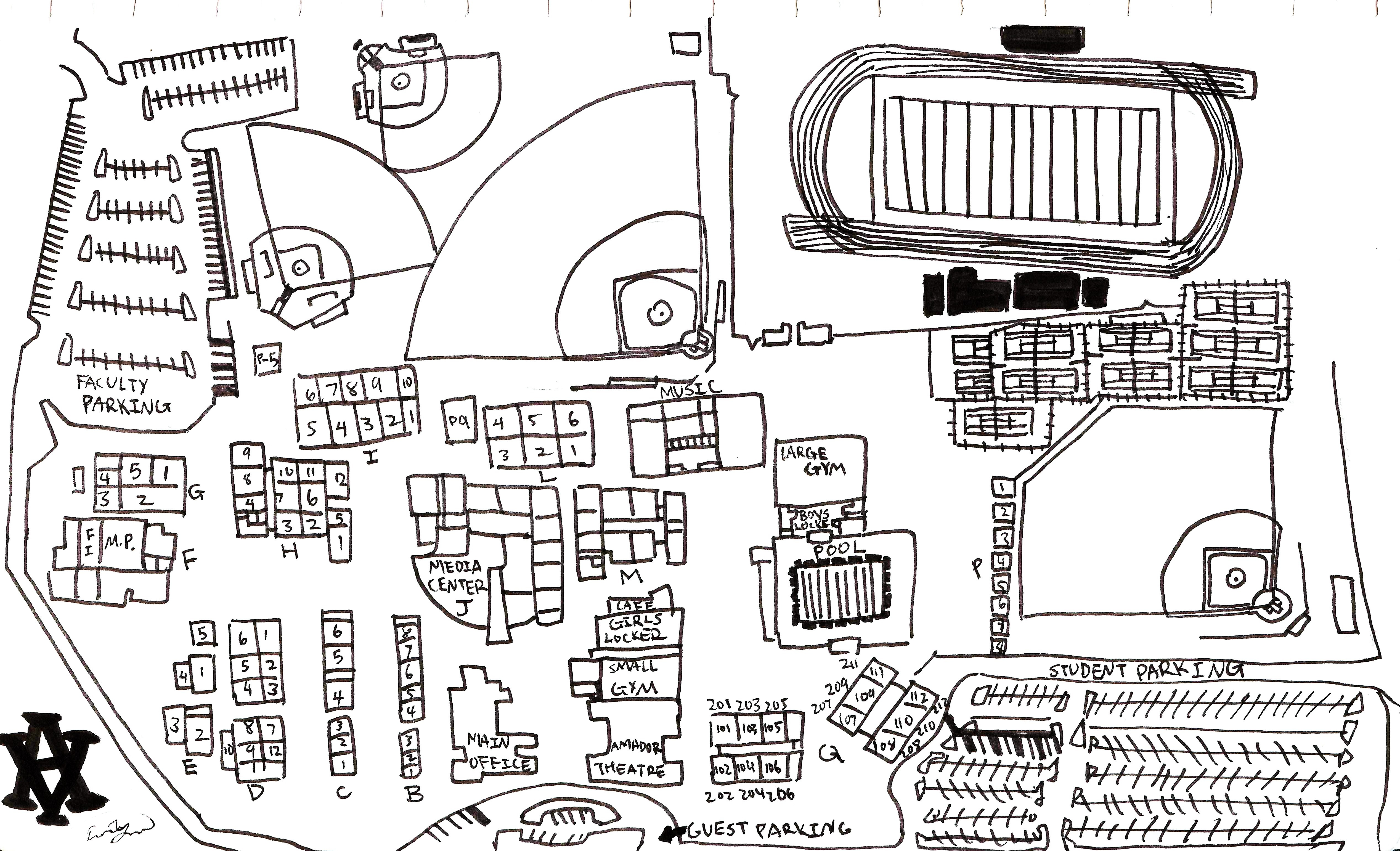 A map of the Amador Valley High School Campus.